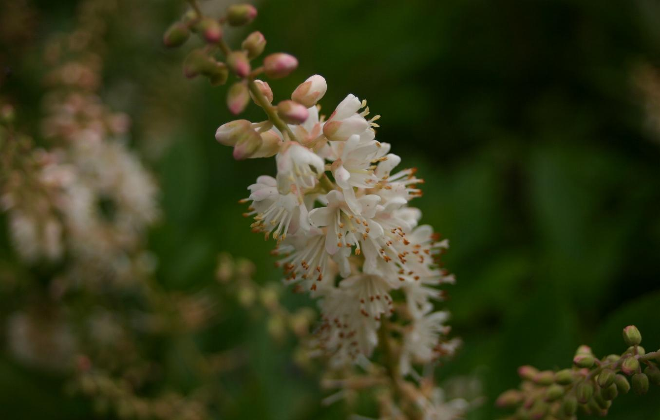 Clethra alnifolia: Flowers